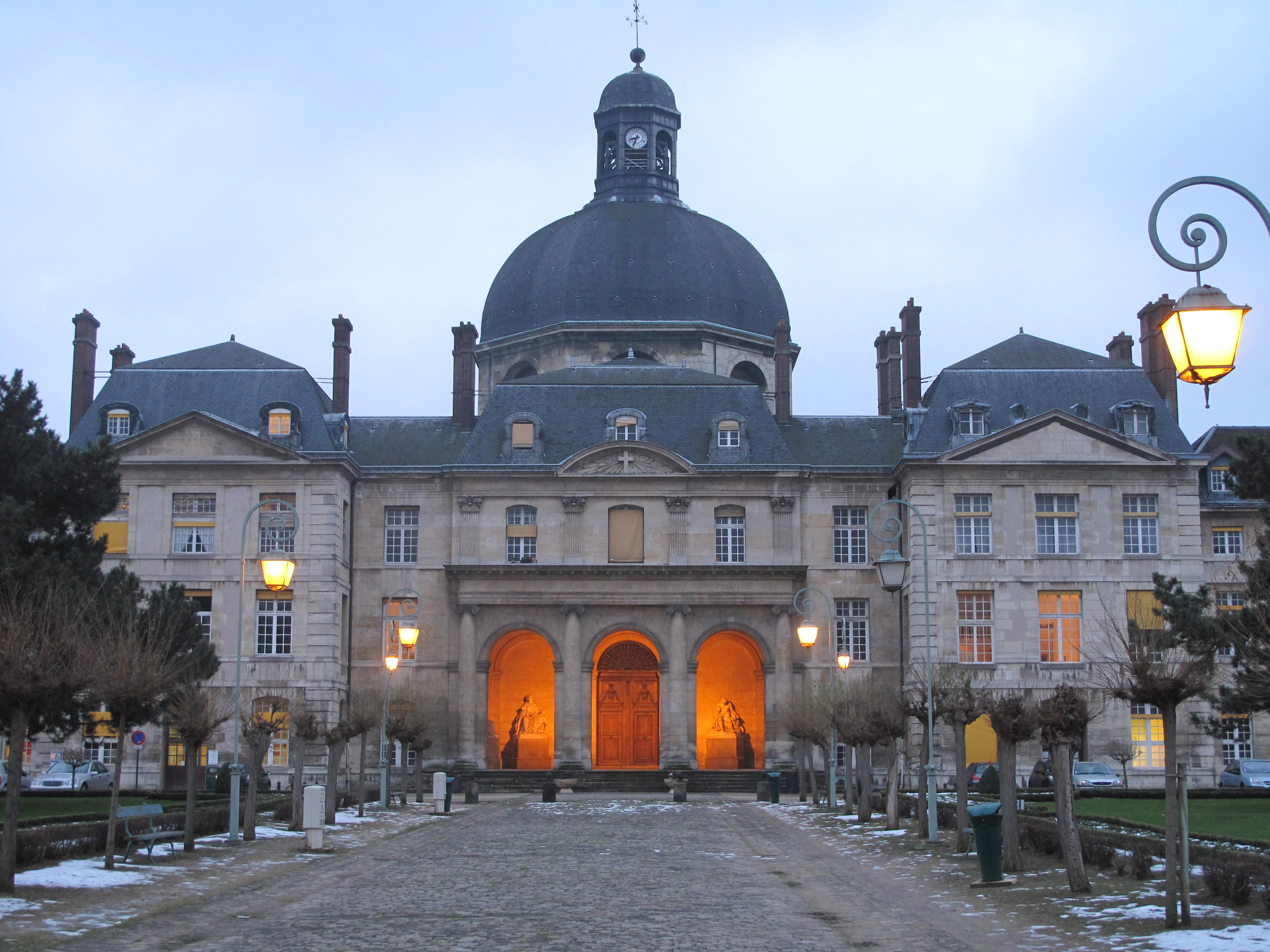 The Chapelle Saint-Louis de la Salpêtrière, Paris 13th arrond. at dawn.